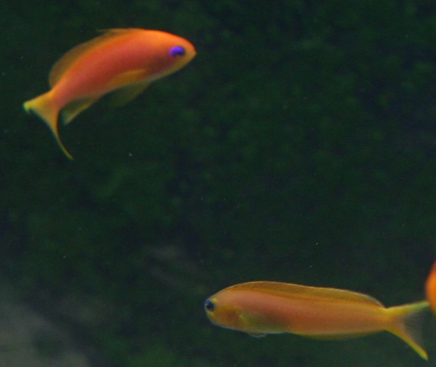 Ecsenius midas (right) mimicking young female Pseudanthias squamipinnis (top left)